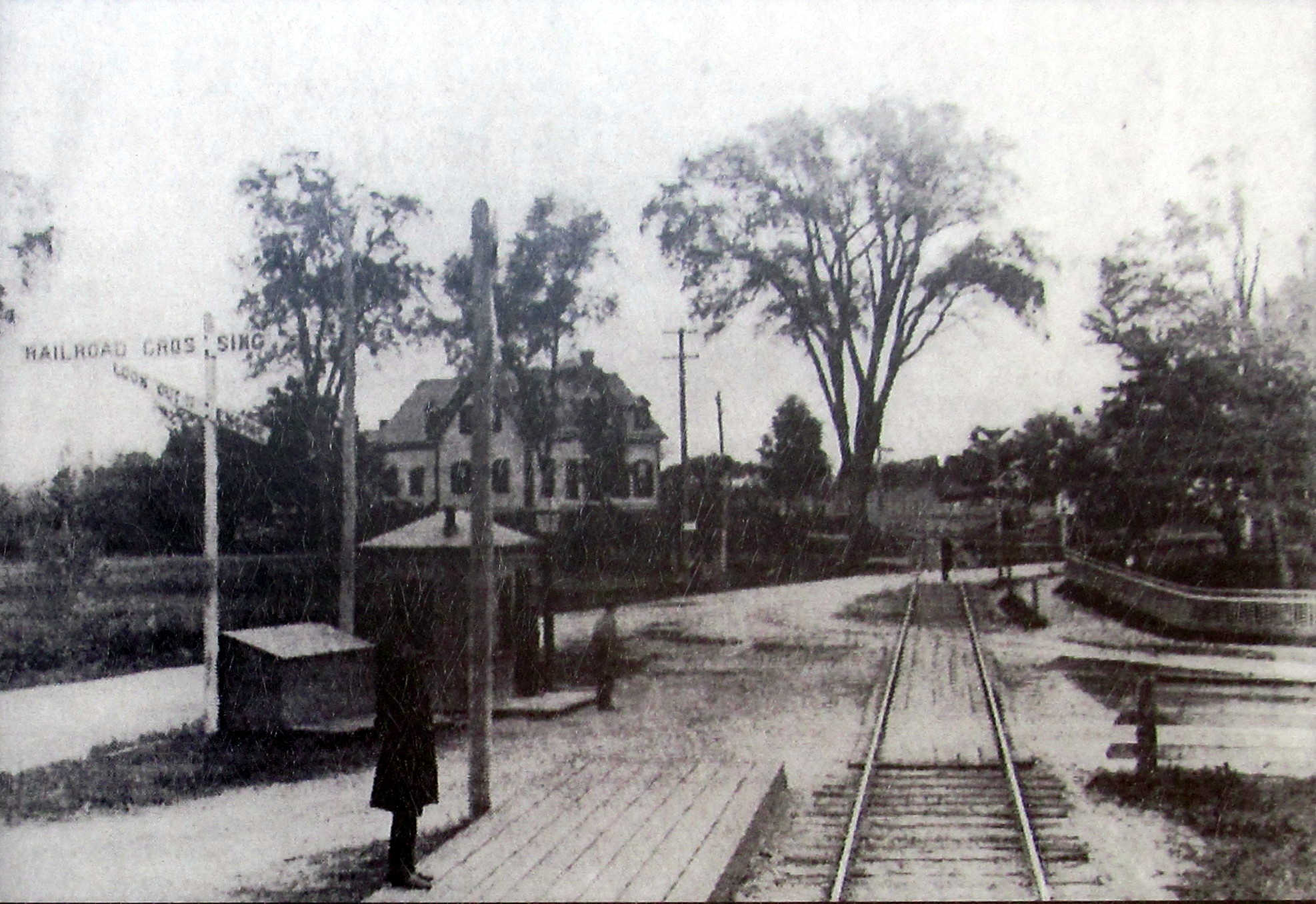 The West Hingham station platform in 1889, facing west towards the intersection of West Street and South Street. The Gothic Revival house at rear is still standing.